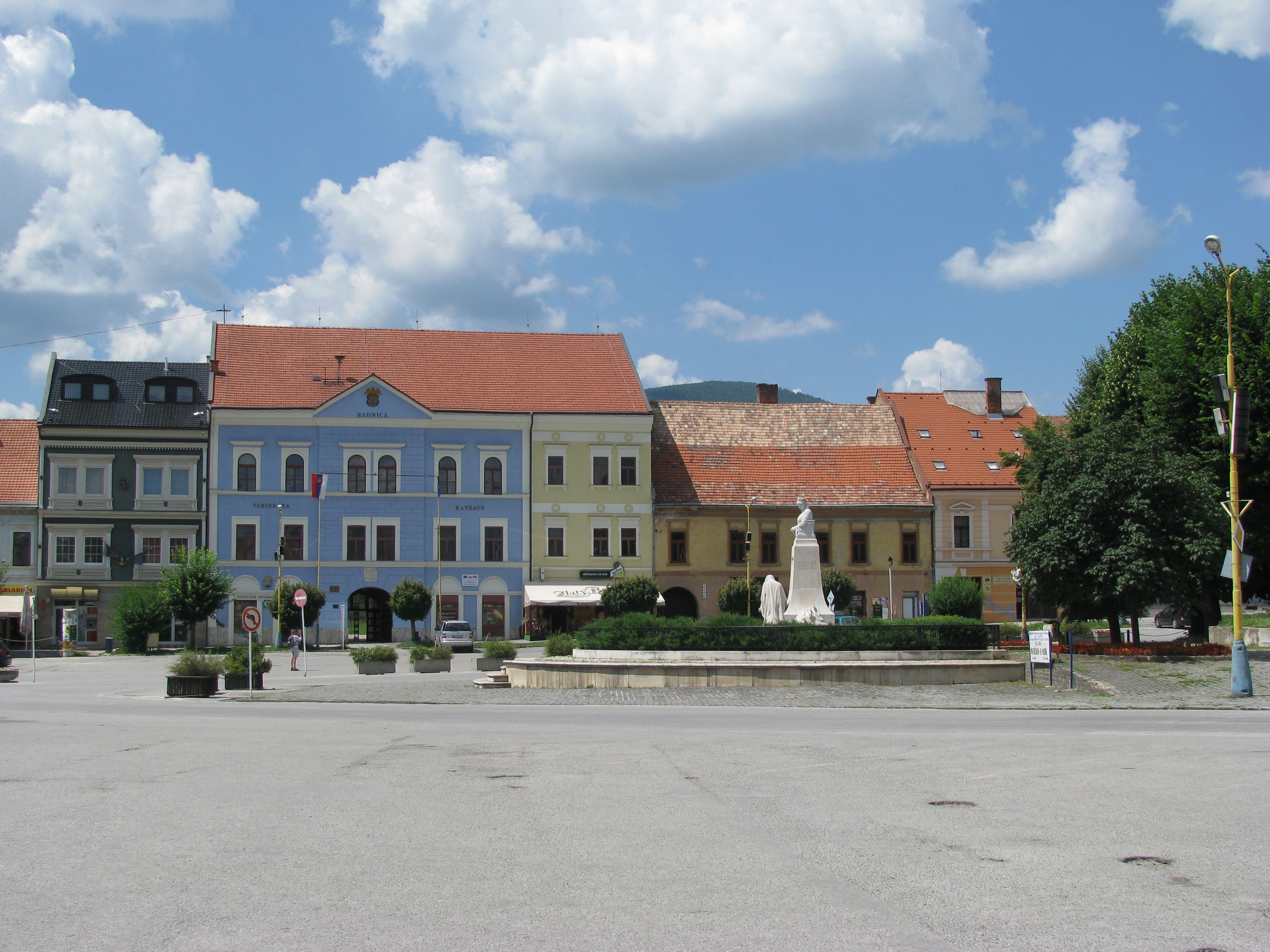 Marketplace and Town Hall of Roznava, Slovakia